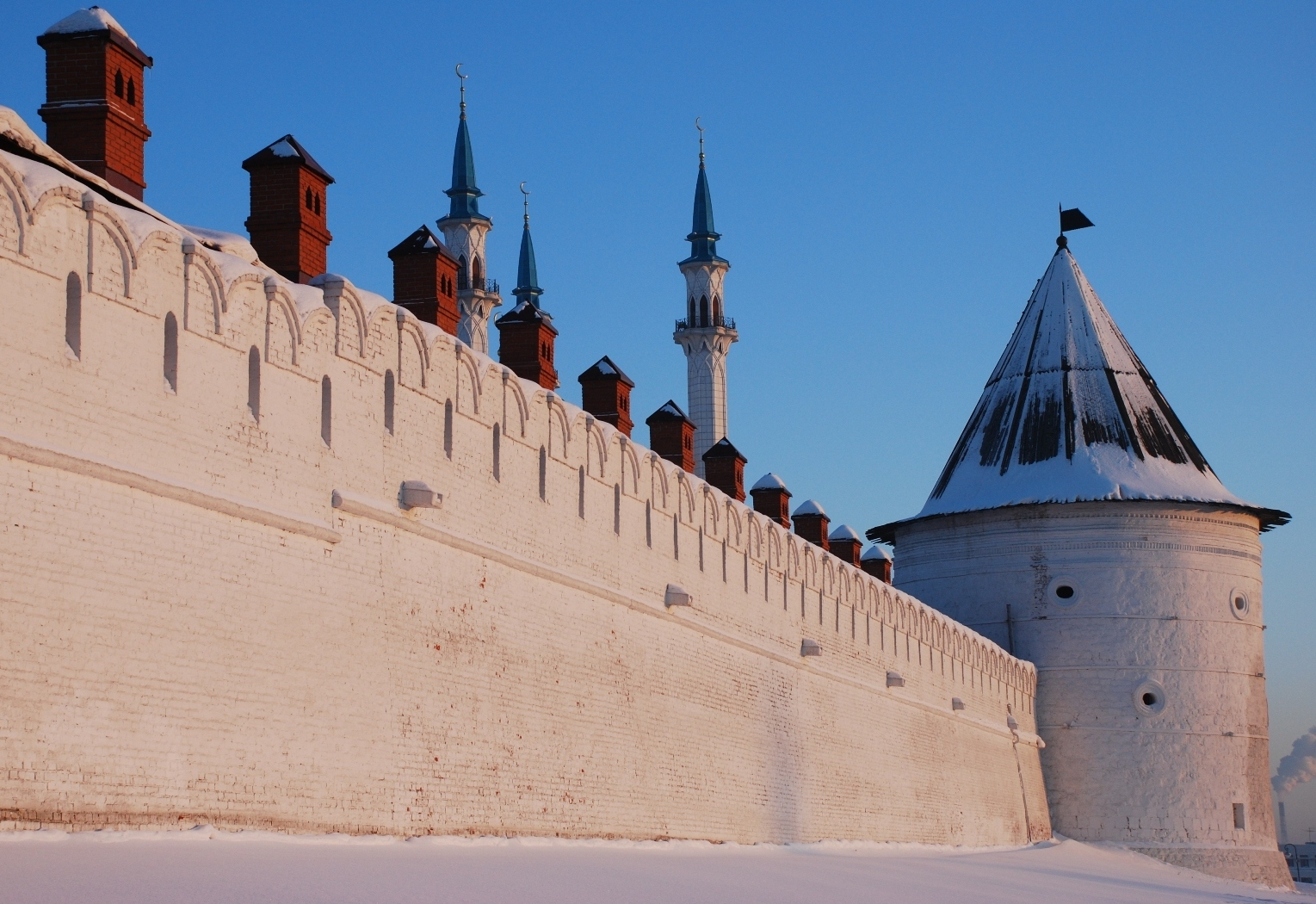 The walls of the Kazan Kremlin